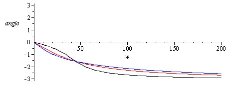 Phase response of a damped mass spring system